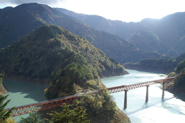 okuooi-kozyoueki